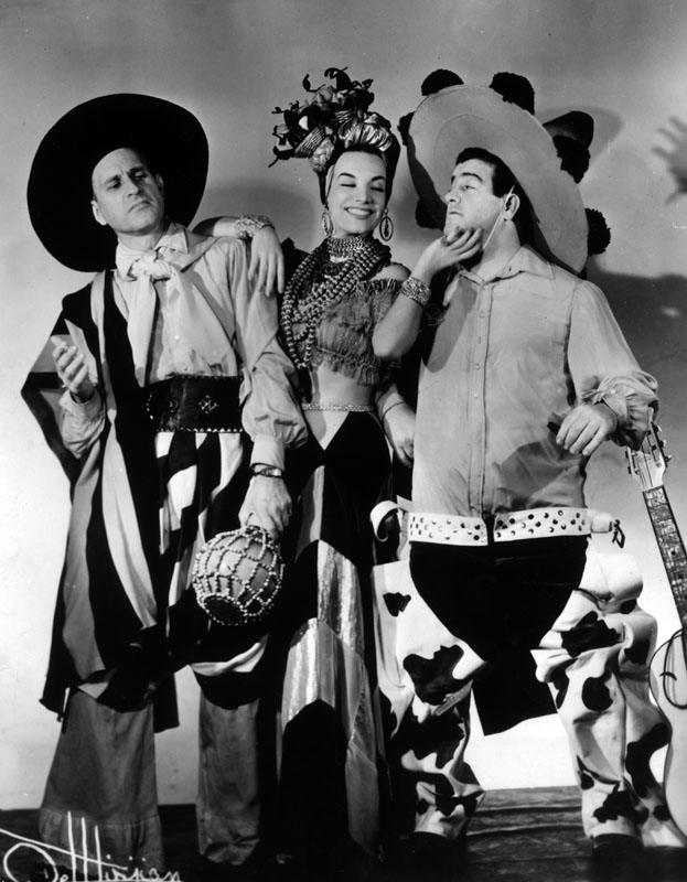 Bud Abbott (left) and Lou Costello went Latin in a big way during a recent reunion with Carmen Miranda, Brazilian bombshell. Abbott and Costello got their biggest boost to fame in the same Broadway hit musical, The Streets of Paris, in 1939.